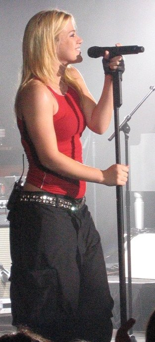 Cropped version of image from Image:Kelly-clarkson-live-in-geelong.JPG -- Kelly Clarkson performing her 'Hazel Eyes' concert tour - November 10, 2005 - Geelong, Victoria, Australia